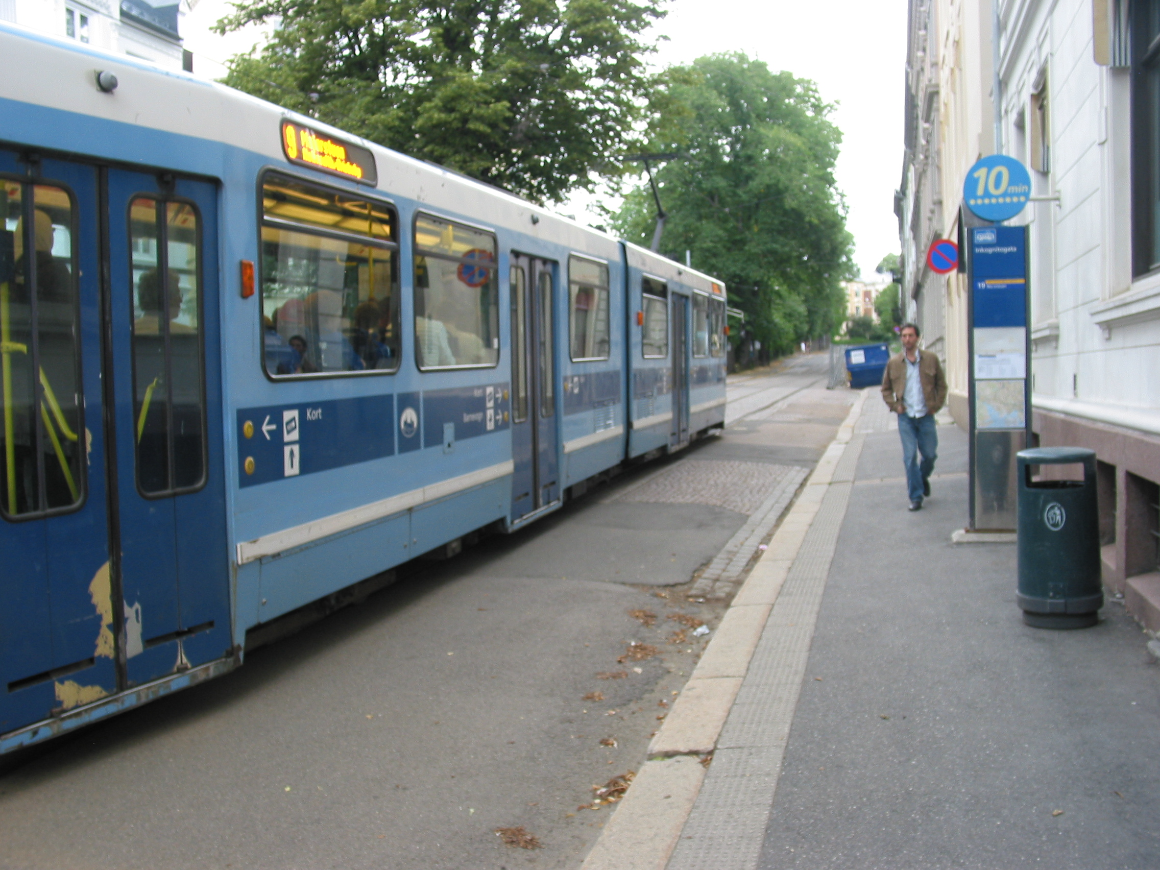 Tramway station Inkognitogata in Frogner, Oslo, Norway.